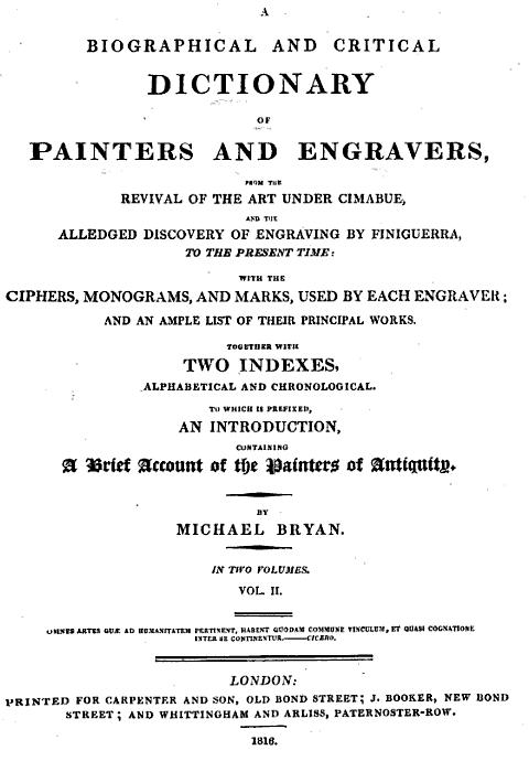 A Biographical and Critical Dictionary of painters and engravers, from the revival of the art under Cimabue, and the alledged discovery of engraving by Finiguerra, to the present time : with the ciphers, monograms, and marks, used by each engraver ánd an ample list of their principal works. Together with two indexes, alphabetical and chronological. To which is prefixed, an introduction, containing A Brief Account of the Painters of Antiquity. by MICHAEL BRYAN. in two Volumes. VOL. II. omnes artes quae ad humanitatem pertinent habent quoddam commune vinclum et quasi cognatione quadam inter se continentur. CICERO, LONDON: Printed for Carpenter and Son, Old Bond Street; J. Booker, New Bond Street; and Whittingham and Arliss, Paternoster-row. 1816